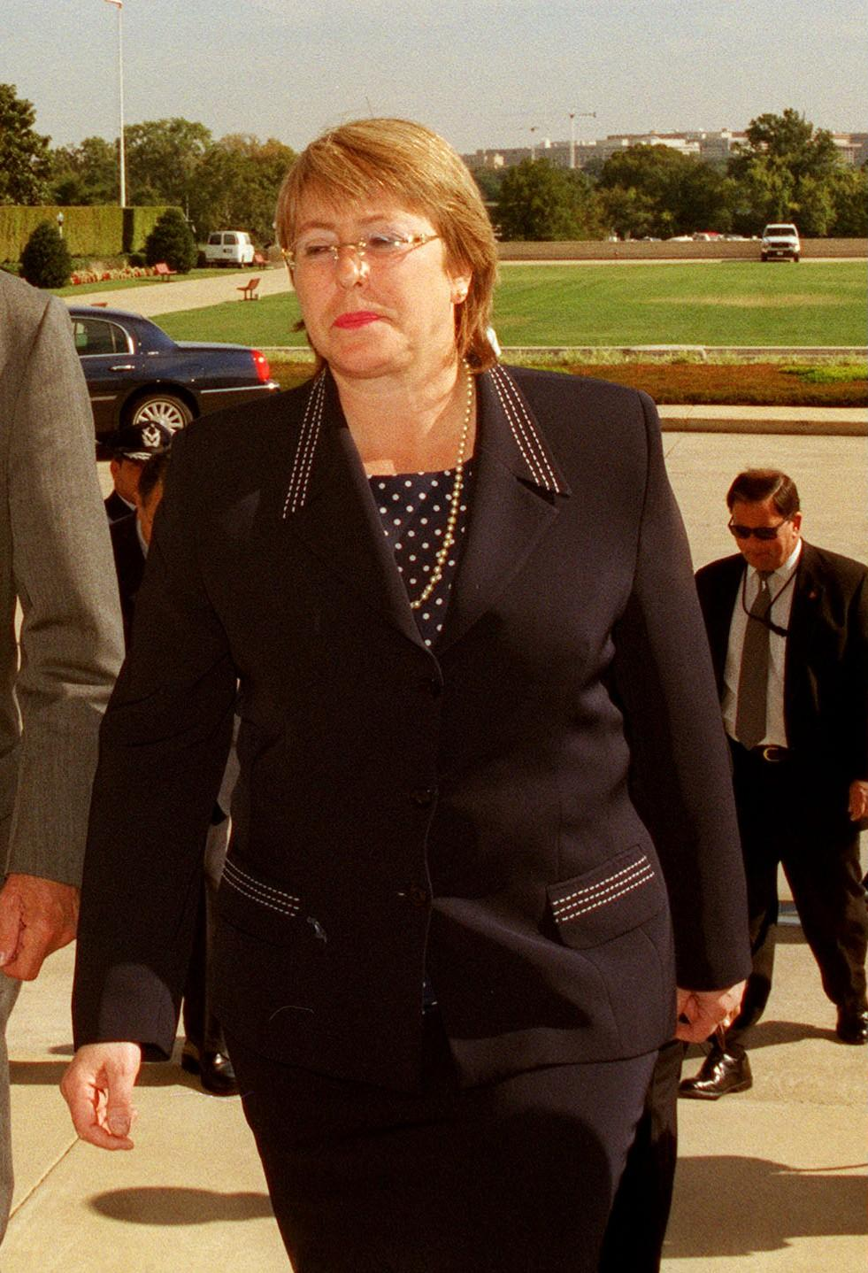 Michelle Bachelet